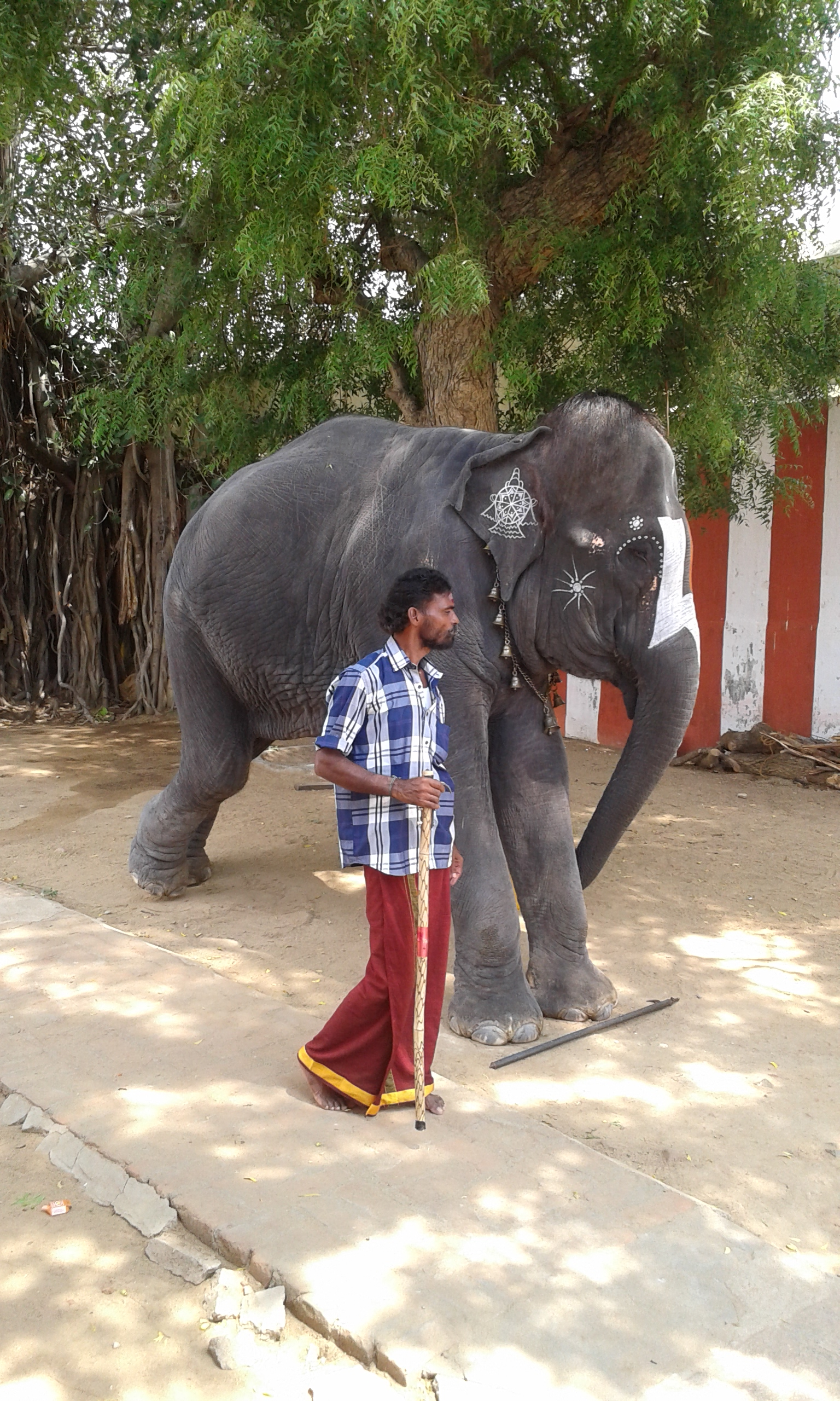 Devapiran temple